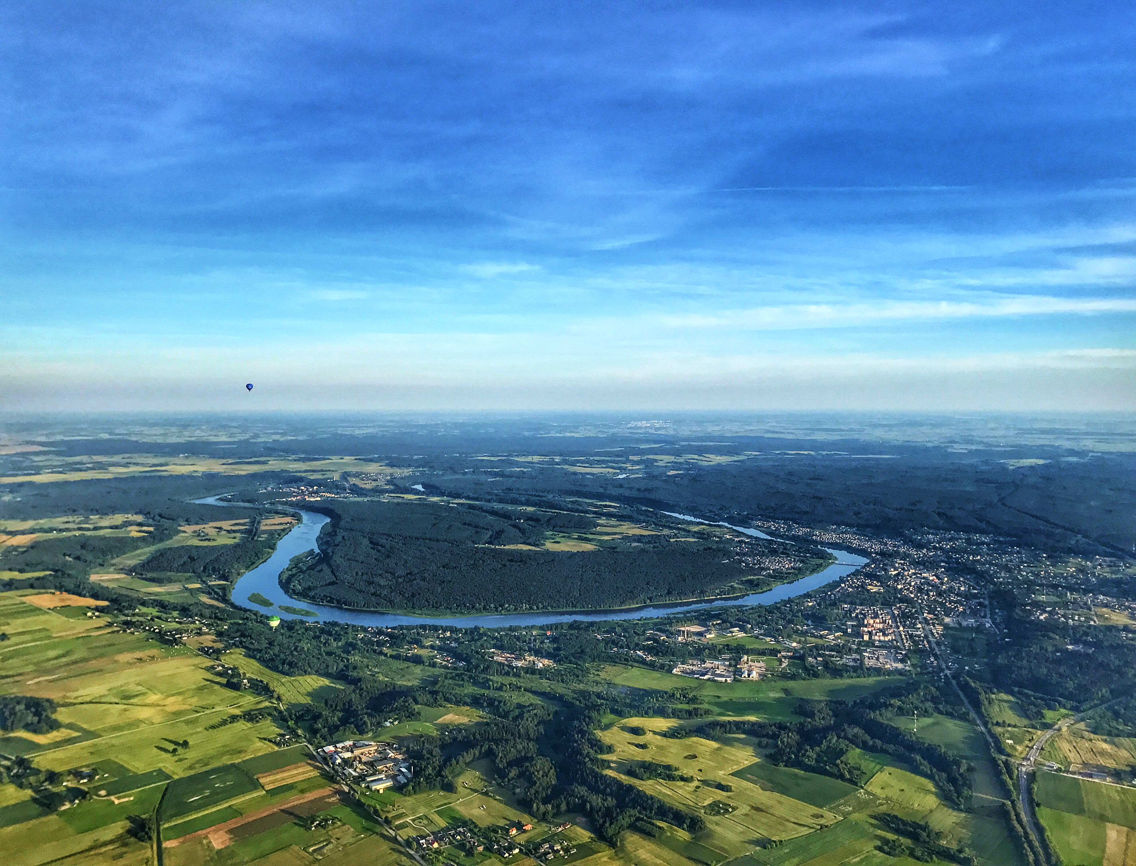 An aerial photo of the town of Prienai and river Nemunas from a hot-air balloon. Photo taken by Simona Vaicekauskaite.